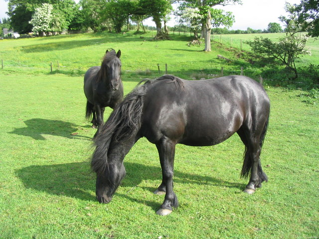 Fell Ponies on the Mossfoot. Heltondale Diccan and Hades Hill Lucy II grazing in fields behind Mossfoot